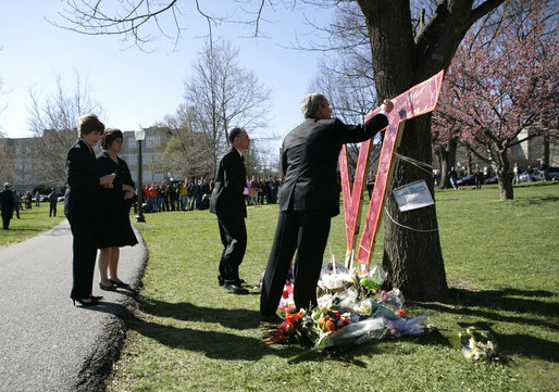 2007 Virginia Tech massacre Bush signs poster. Description from source website: President George W. Bush signs a large Virginia Tech emblem, as the President and Mrs. Laura Bush stop to pay their respects at a campus memorial following the Convocation Tuesday, April 17, 2007 in Blacksburg, Va., honoring the shooting victims at Virginia Tech. White House photo by Eric Draper